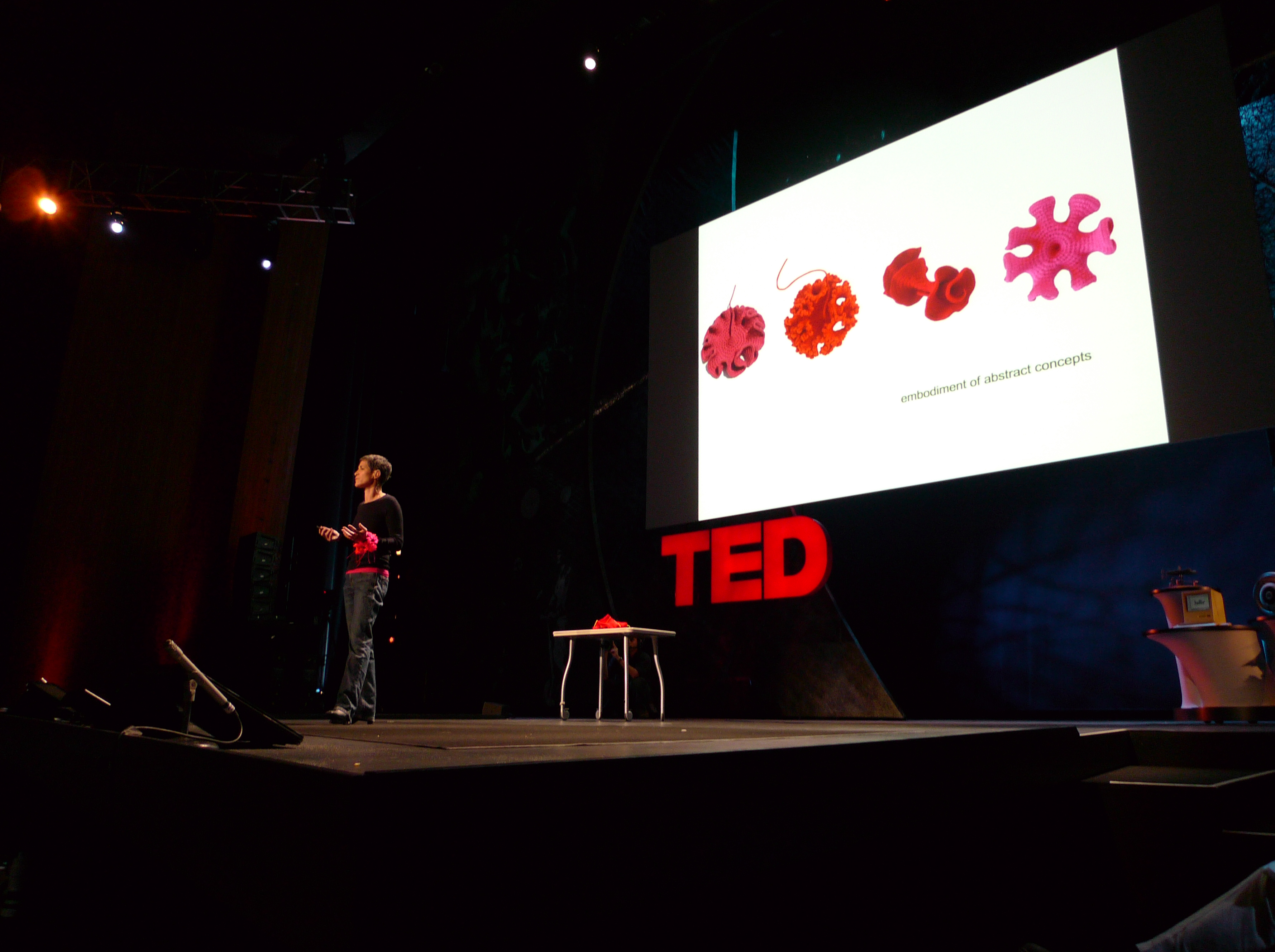 Margaret Wertheim speaking at TED Wertheim showing off some hyperbolic surfaces that can only be created through crochet.